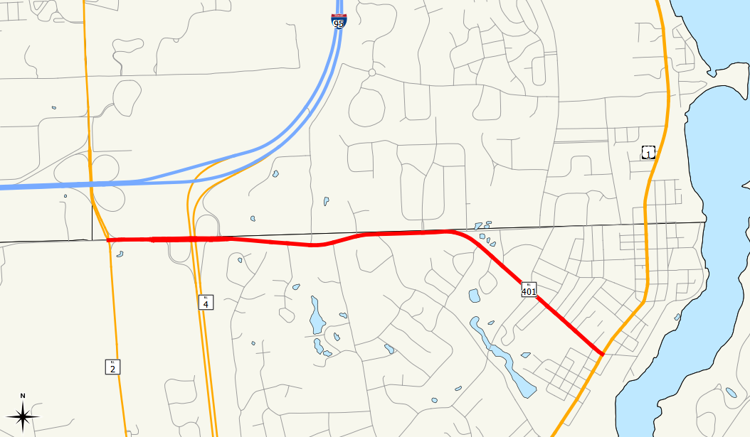 Map of Rhode Island Route 401. Data is from RIGIS database [1]